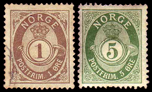 Definitive postage stamps of Norway "Posthorn", 1 and 5 ore, 1891 and 1893